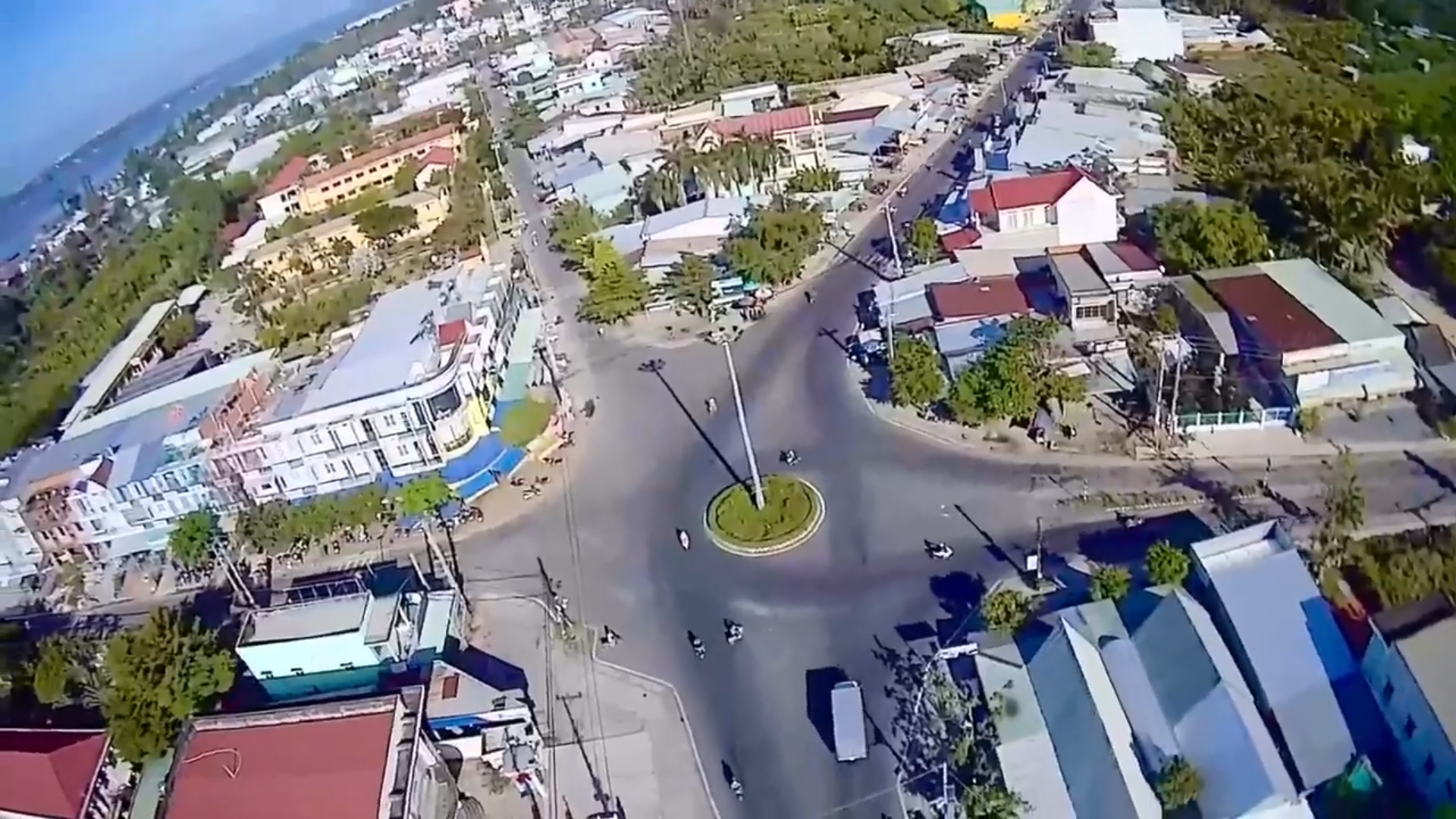 Nga 5 Tan Thành